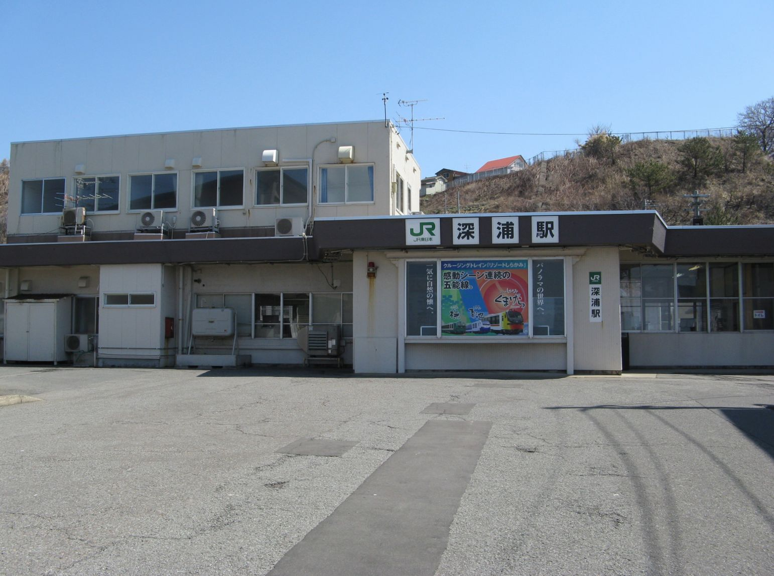 Fukaura Station on the JR Gono Line, in Fukaura, Aomori